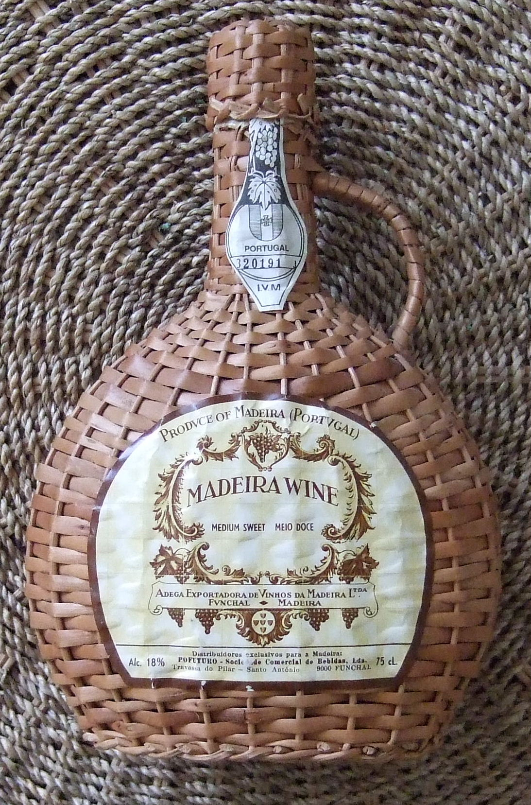 A bottle of Madeira wine brought back from Madeira in the 1970's in a unique wicker cask around the glass bottle.